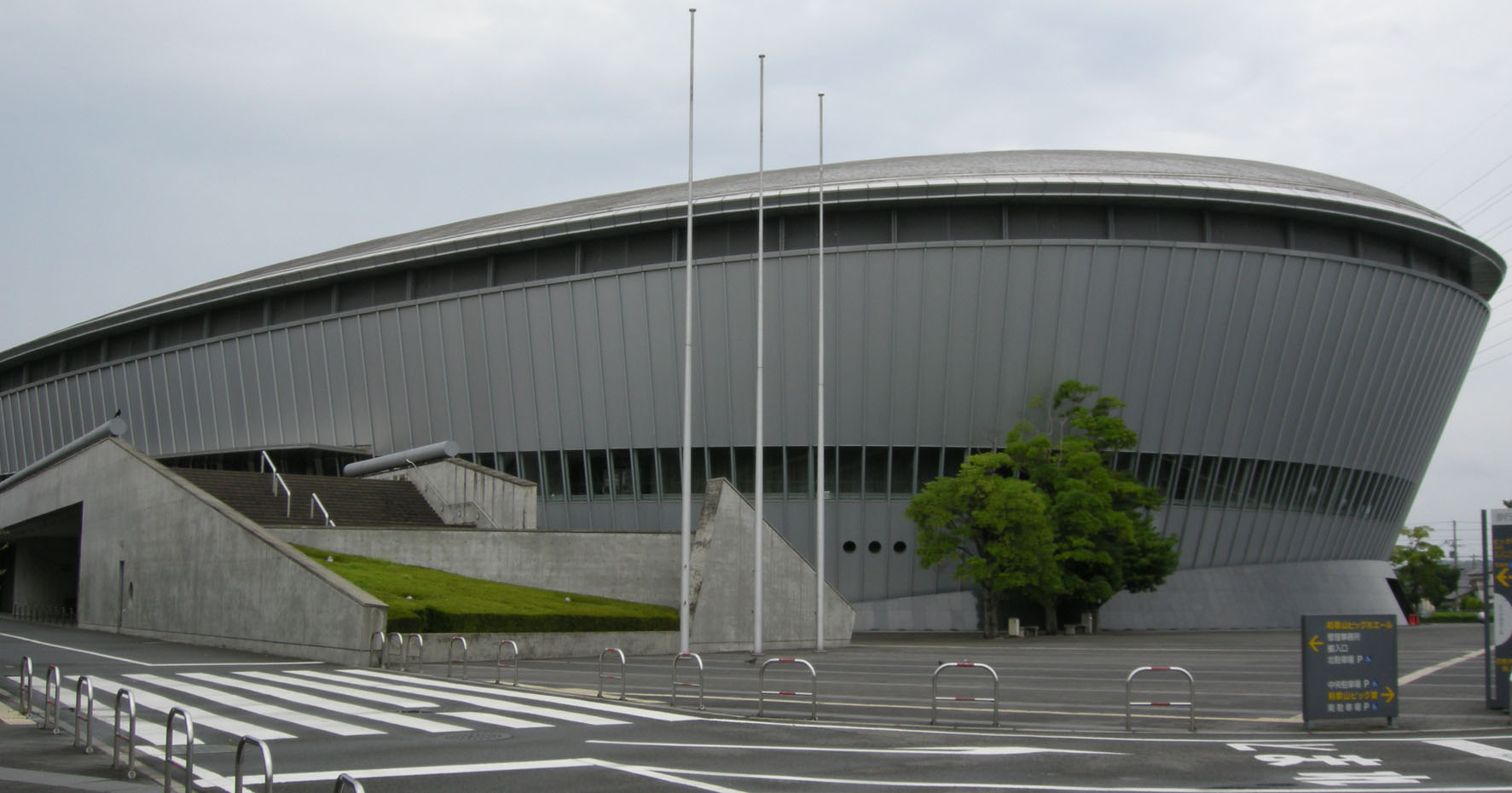 Wakayama Big Whale arena, Wakayama city, Wakayama prefecture, Japan